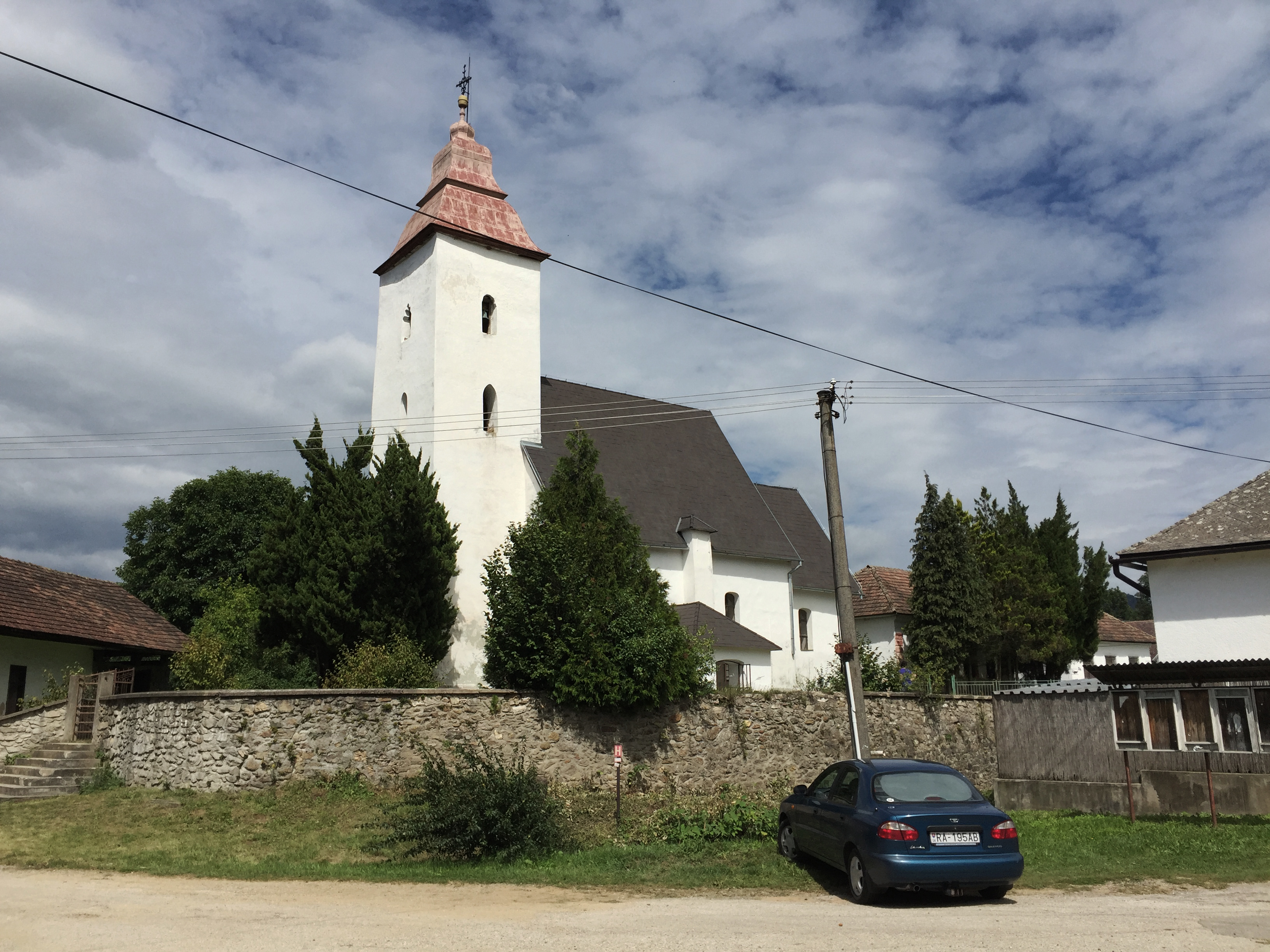 Early Gothic Lutheran church in Roštár, Slovakia.